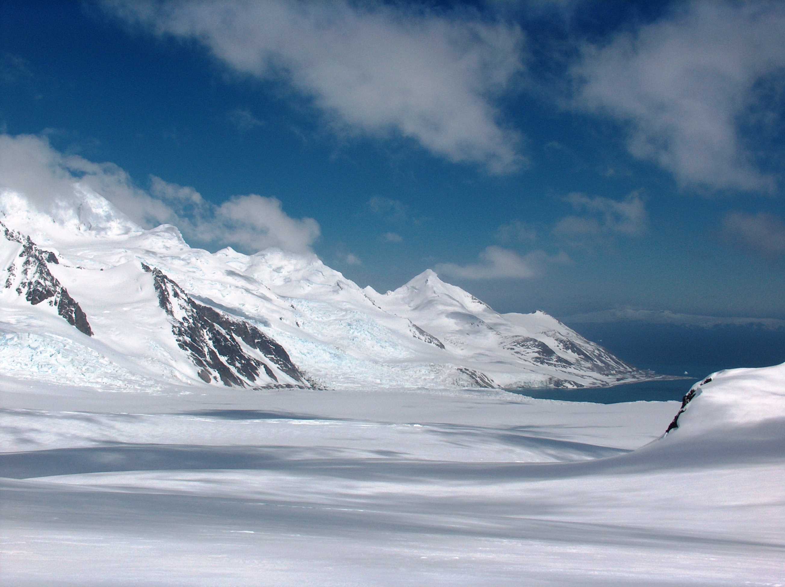 Huntress Glacier from Orpheus Gate area on Livindston Island, Antarctica